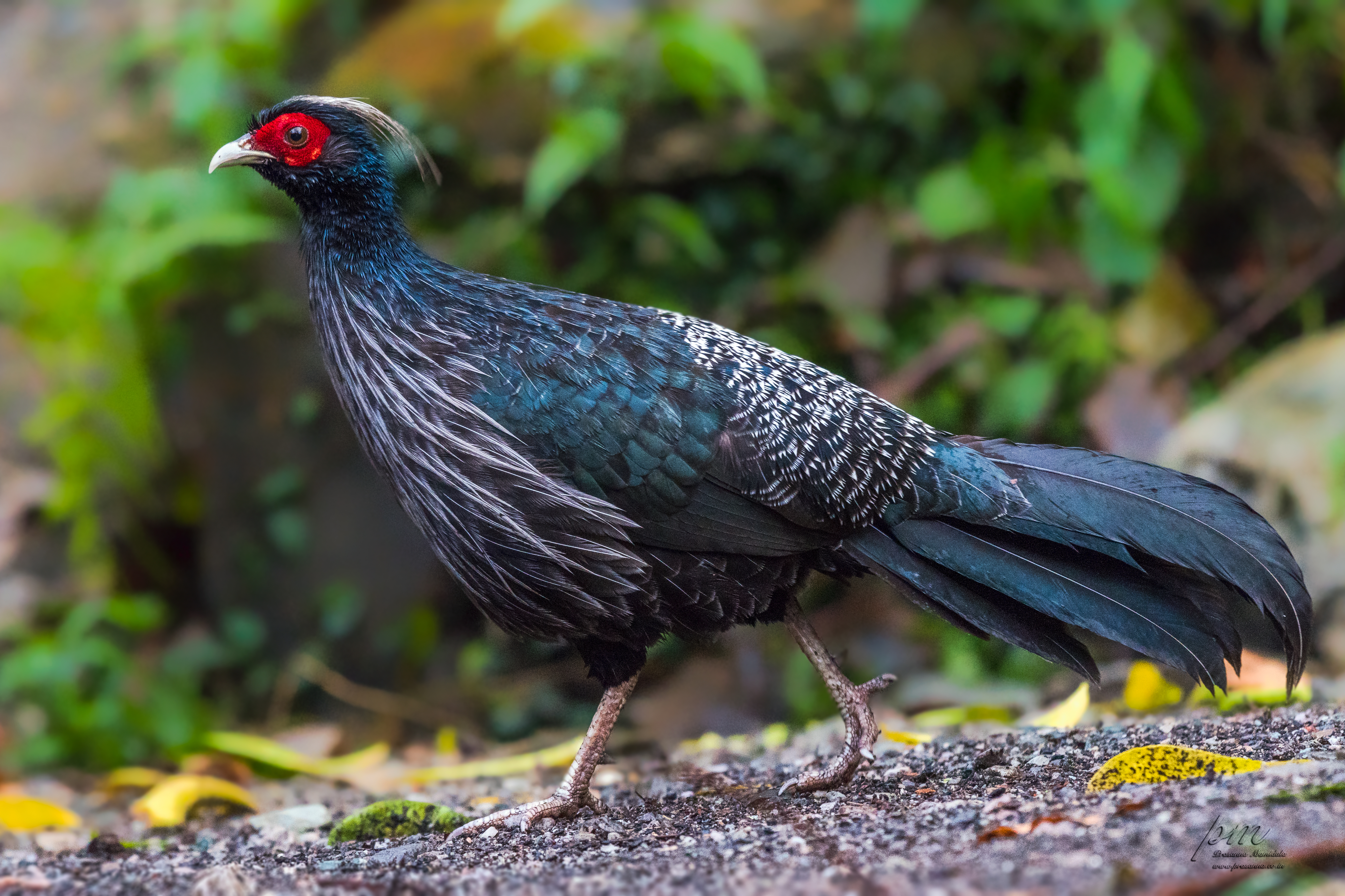 Kalij pheasant, Himalayan Foothills, India; Photographer: Prasanna Kumar Mamidala